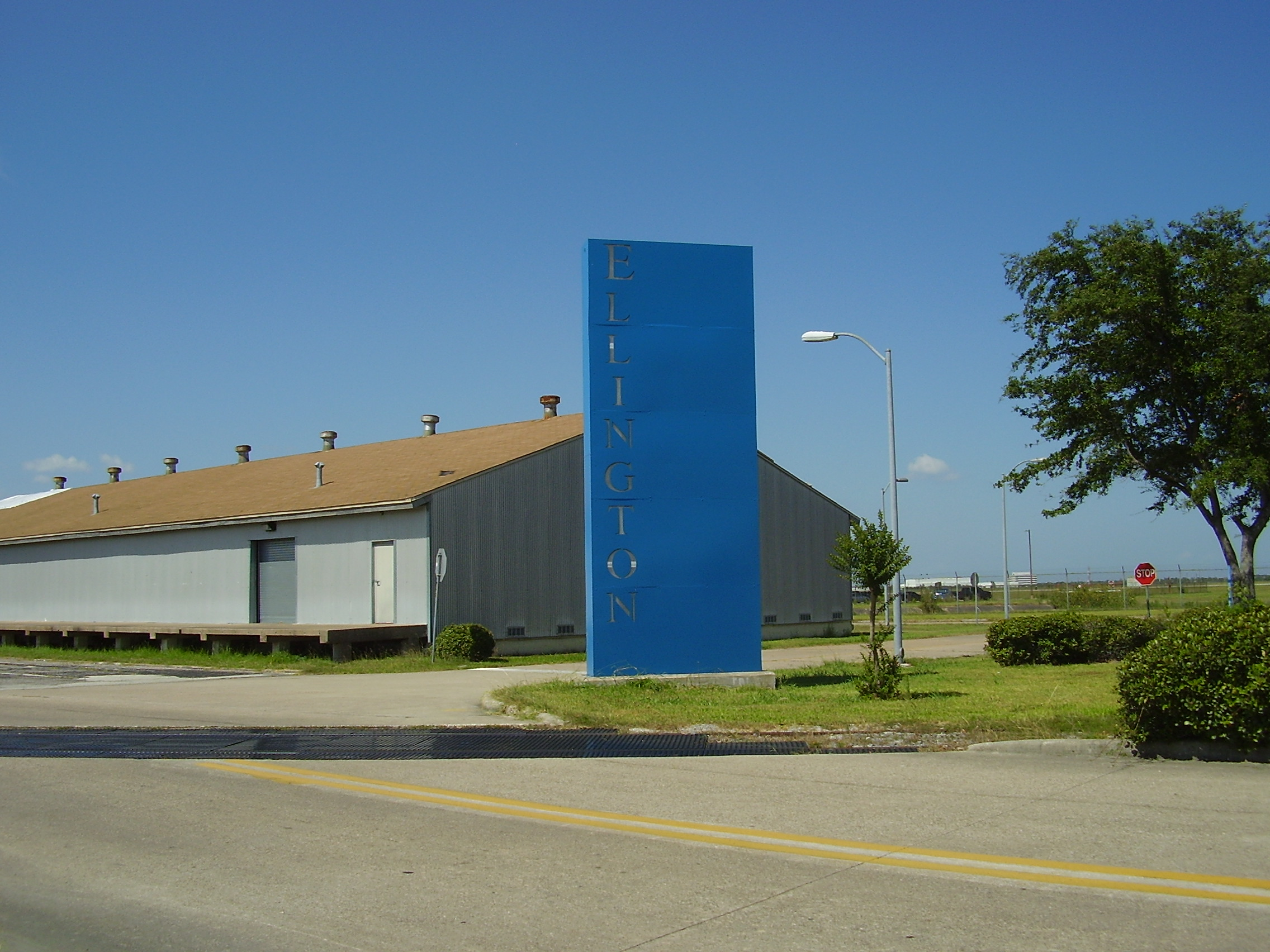 Ellington Airport (formerly Ellington Field) in Houston